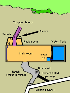 Map of Operation Tracer, also known as Stay Behind Cave, in Gibraltar. At the time that it was constructed, it was known as Braithwaite's Cave.